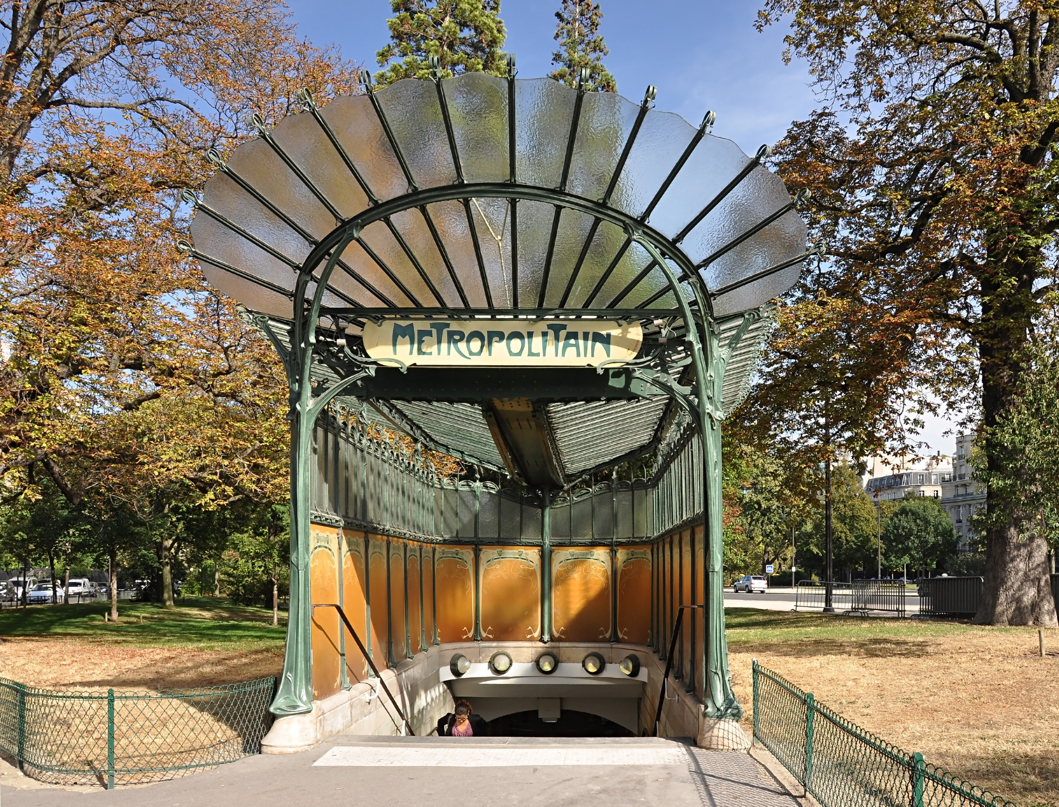 The entrance of Porte Dauphine metro station in 16th arrondissement of Paris, France. The building is a work of French architect and designerHector Guimard.